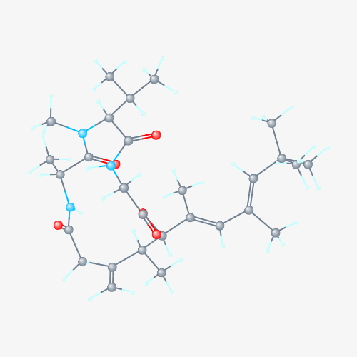 500x500 image of the 3D structure of antillatoxin